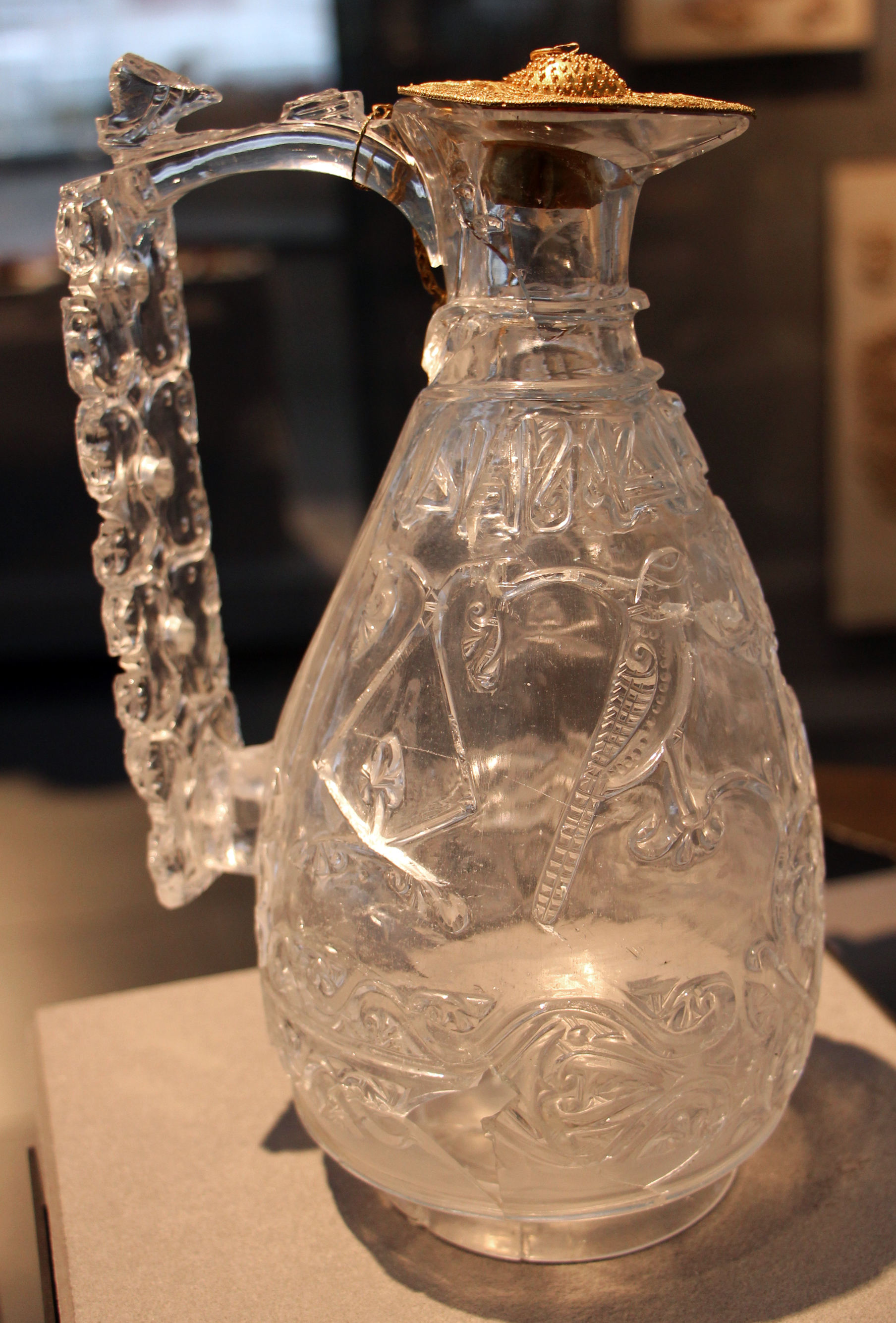 Islamic art in the Louvre